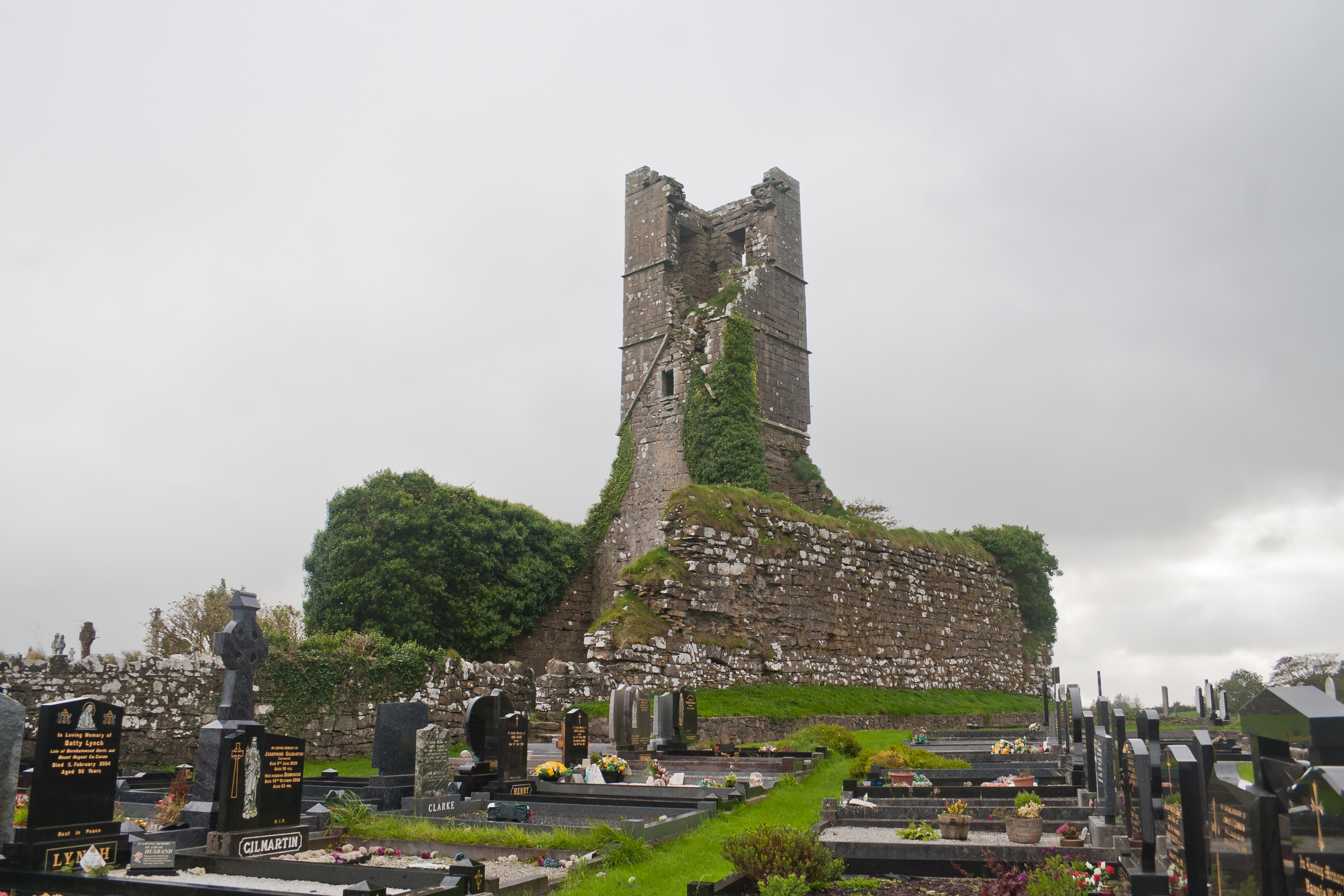 North-east view of Court Friary.